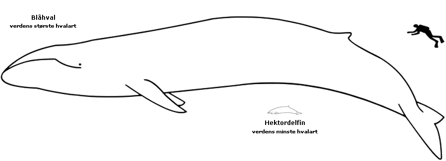 Largest and smallest whale (Blue Whale and Hector Dolphine)